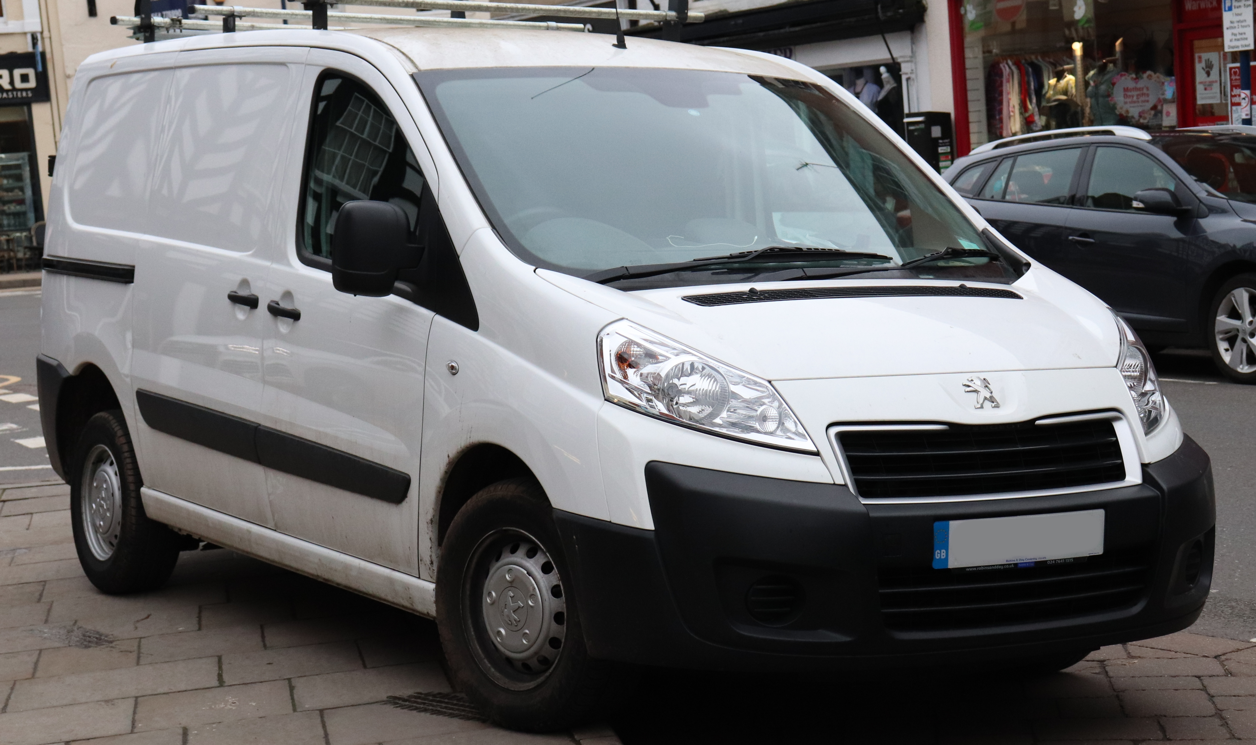 2015 Peugeot Expert 1000 L1H1 Prof-Nal facelift 1.6 Front Taken in Warwick